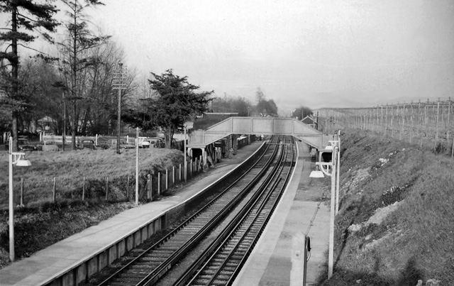 Barming Station. View eastwards, towards Maidstone East and Ashford; Victoria - Bromley South - Swanley - Otford - Maidstone East - Ashford secondary main line, electrified 1939.